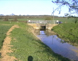 Sluice on Kirtling Brook, Great Bradley. This is on the Suffolk-Cambridge border. The sluices control the flow of water down Kirtling Brook into the River Stour. The water has come from the River Ouse in Norfolk and is on its way to the reservoirs near Chelmsford in Essex